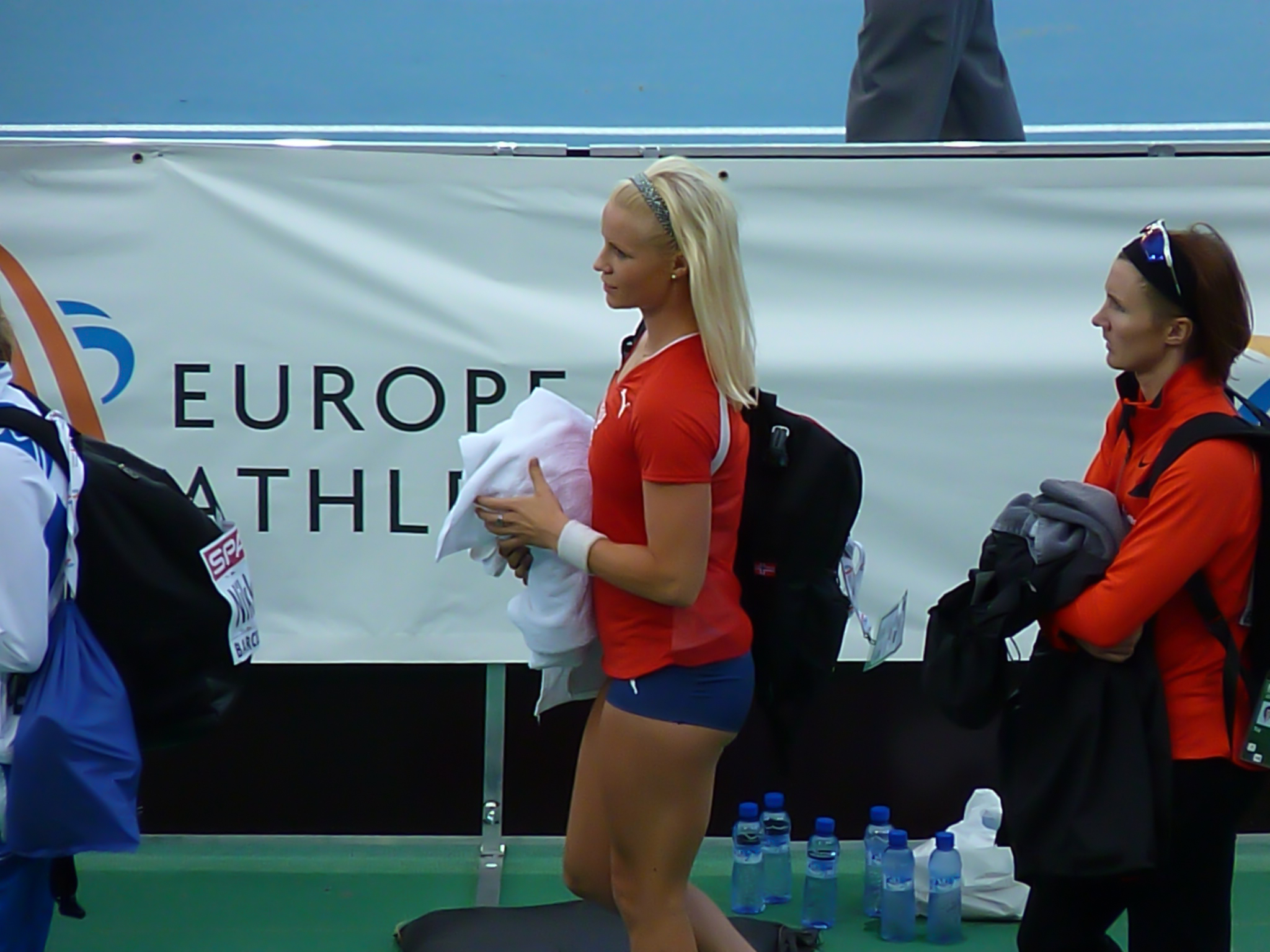 Norwegian pole vaulter Cathrine Larsåsen in the European Championships in Barcelona 2010.